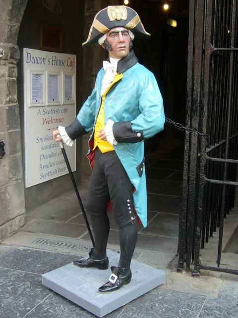 Advertising figure depicting William Brodie, Deacon of Wrights, in Edinburgh's Lawnmarket